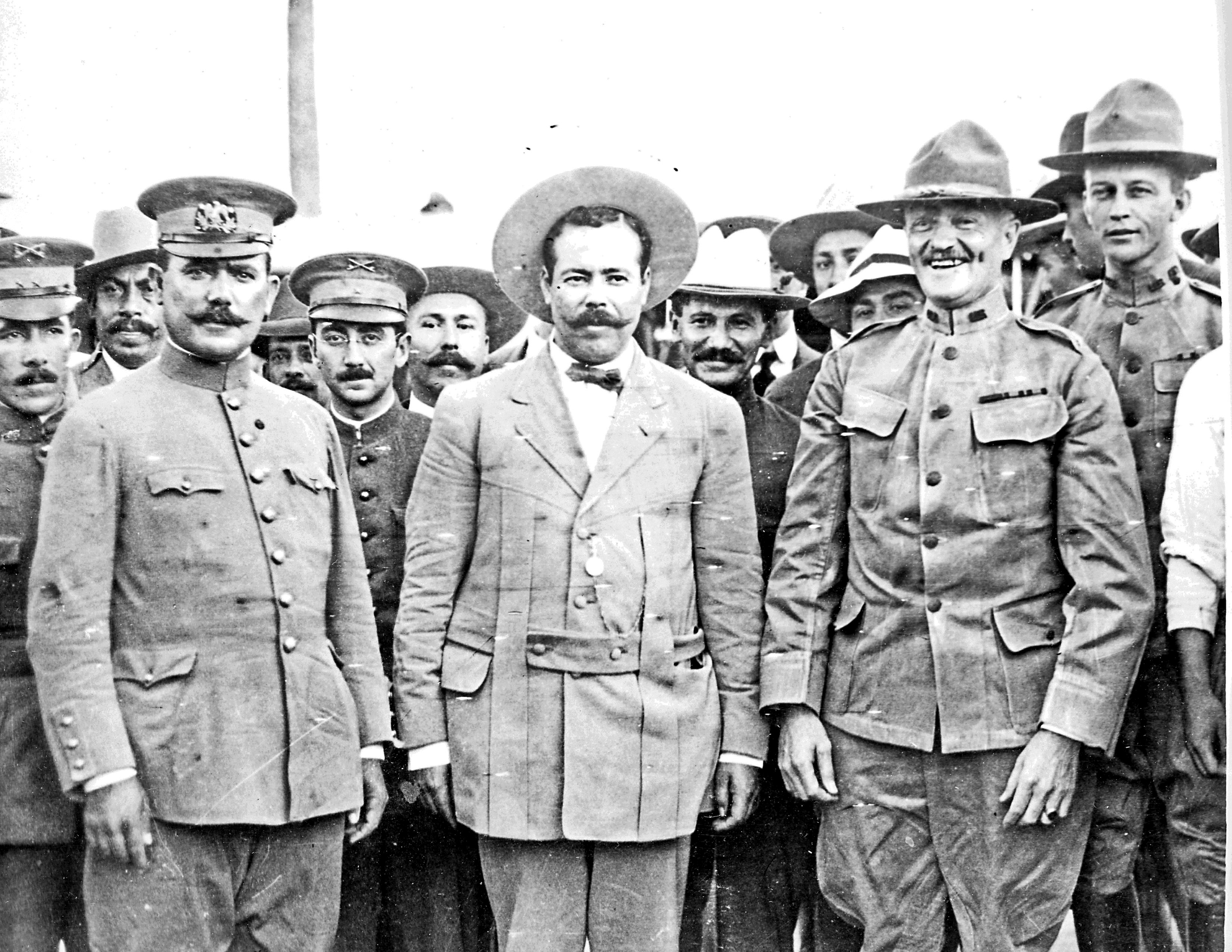 Generals Obregon, Villa and Pershing meet at Ft Bliss, TX (1). Immediately behind Pershing on the left is his aide Lt. George S. Patton.